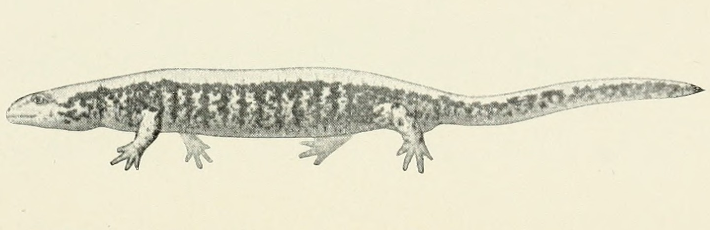 Salamandrella keyserlingii